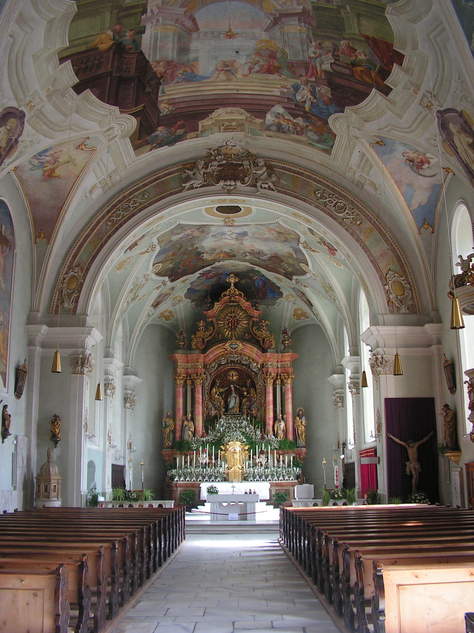 Silandro (Schladers) - Inner view of the Maria Himmelfahrt Parish Church